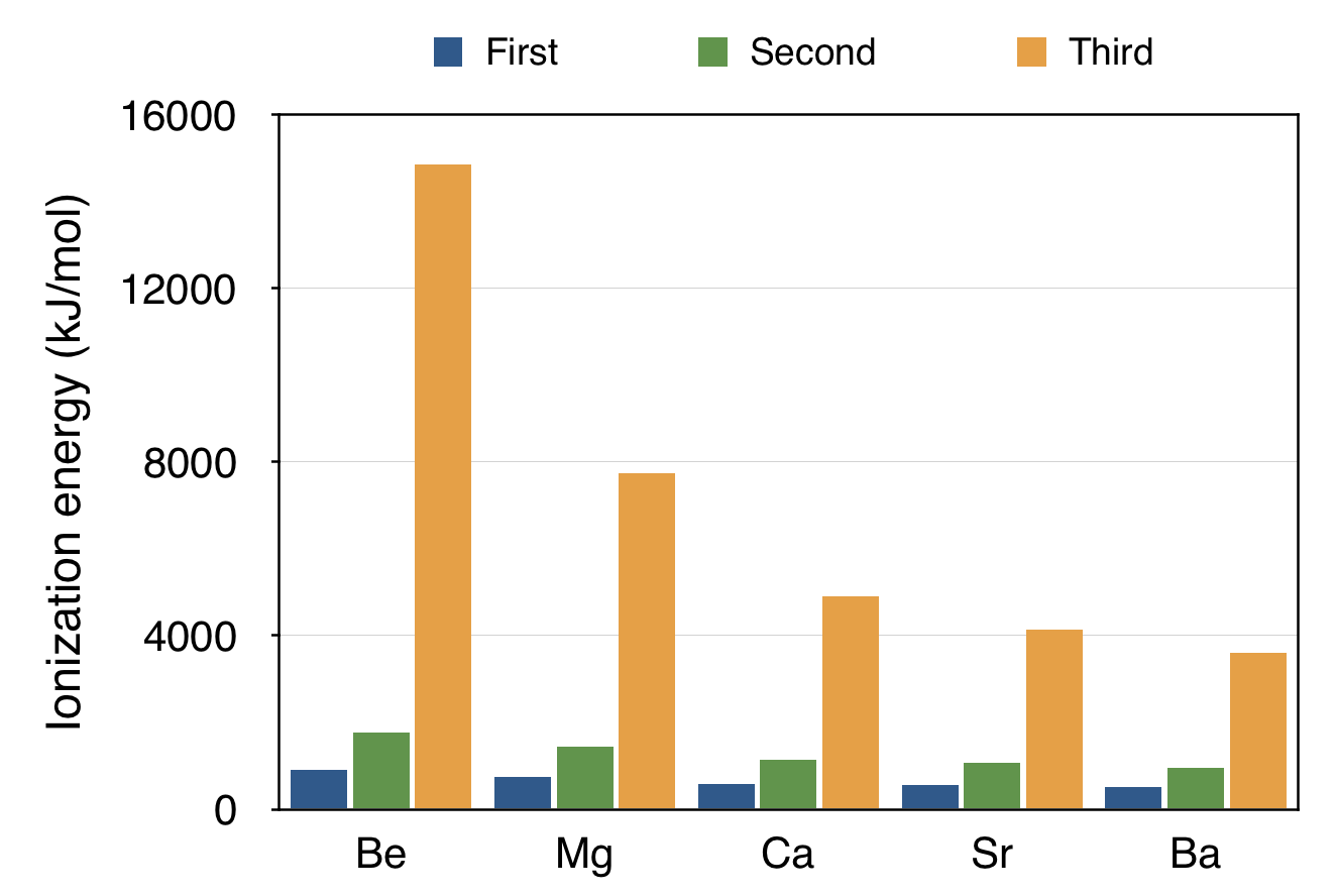 Ionization energies of group 2 elements. Data from